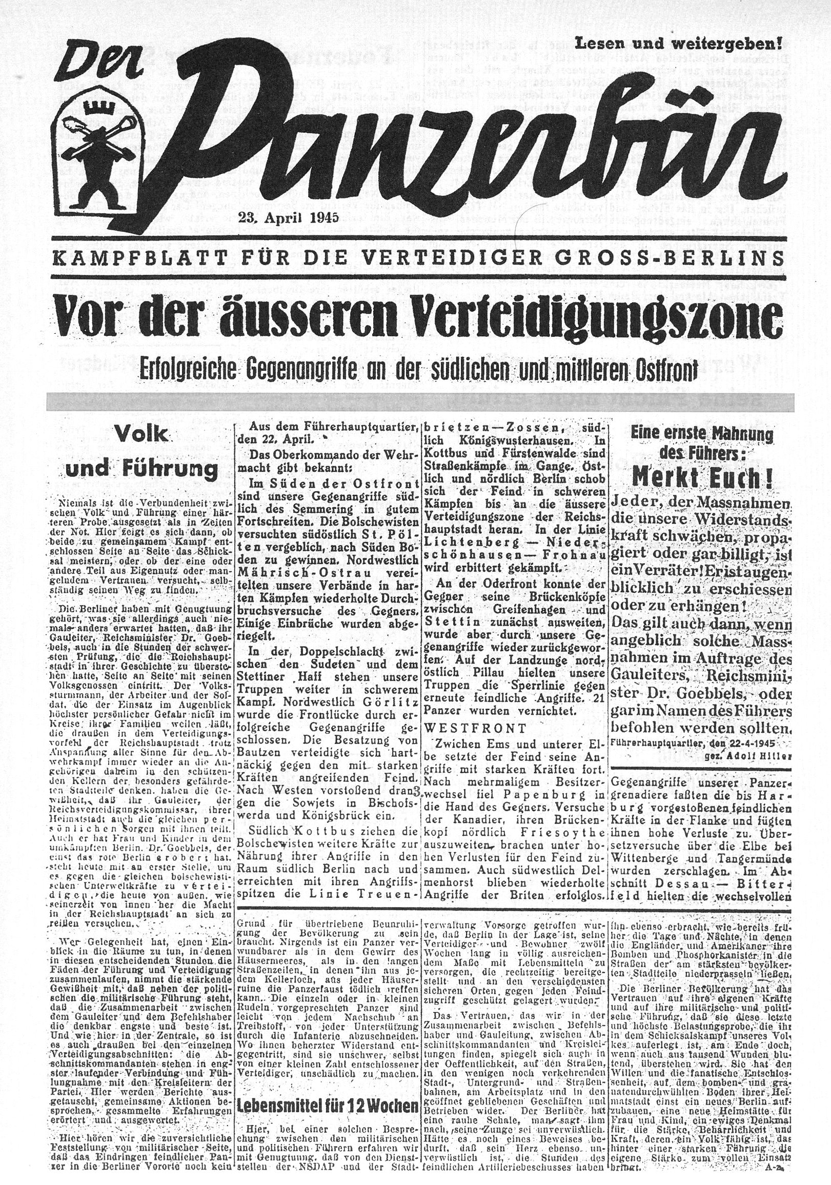 First edition of "Panzerbär" Berlin